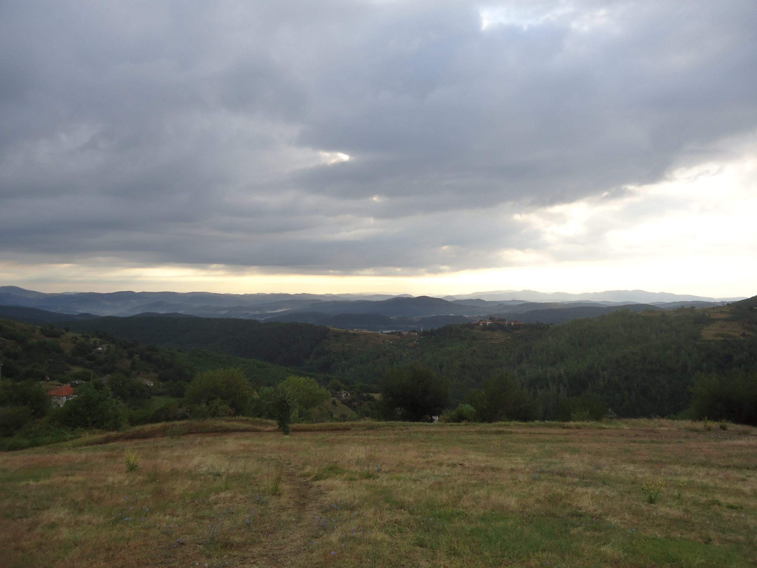 Yabalkovets